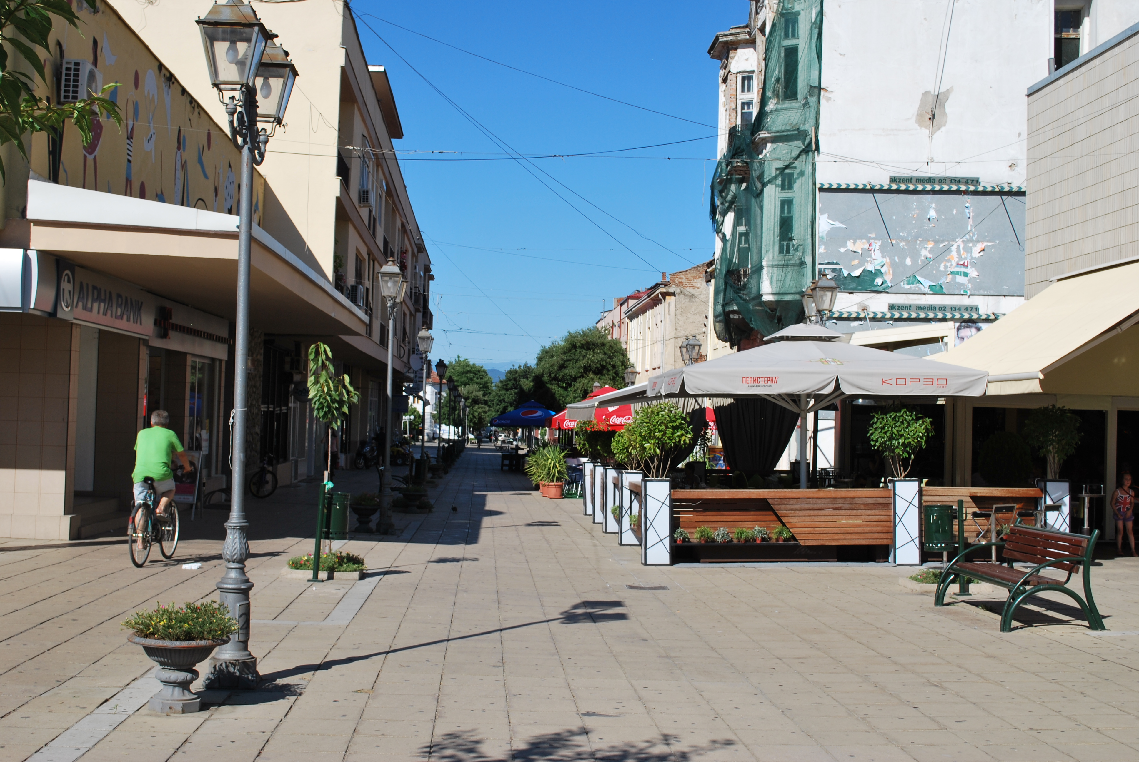 Gevgelija, Macedonia